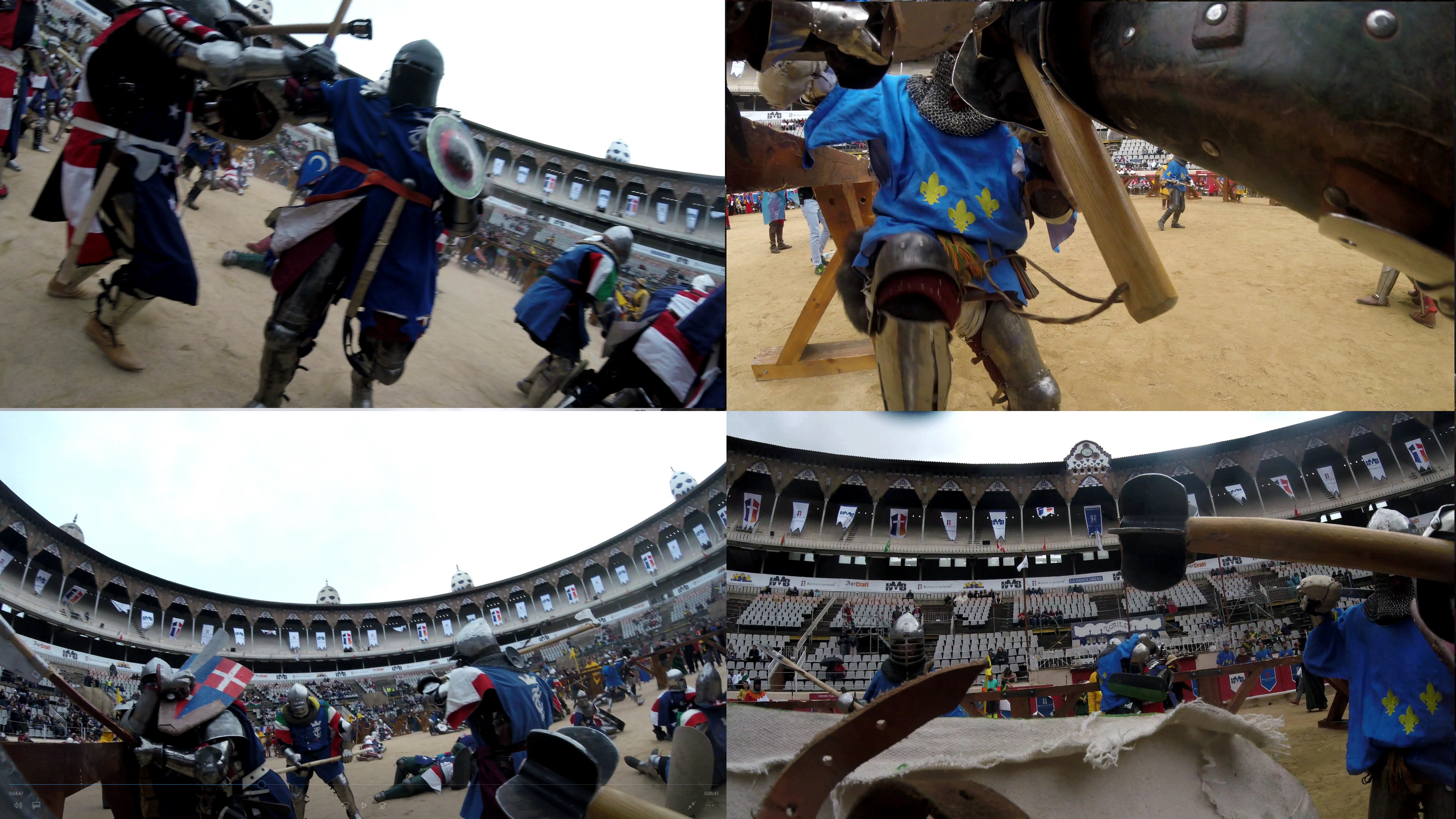 From La Monumental, in Barcelona, Spain May 2017. This picture is from the point of view of fighter Richard Fry, of USA 3 team, in 21 vs 21 Battle of the nations competition. It is taken by the fighter who wore a Go Pro Hero 5 session, attached to his chest. In the picture you can see France, Italy, and USA fighters, in action.